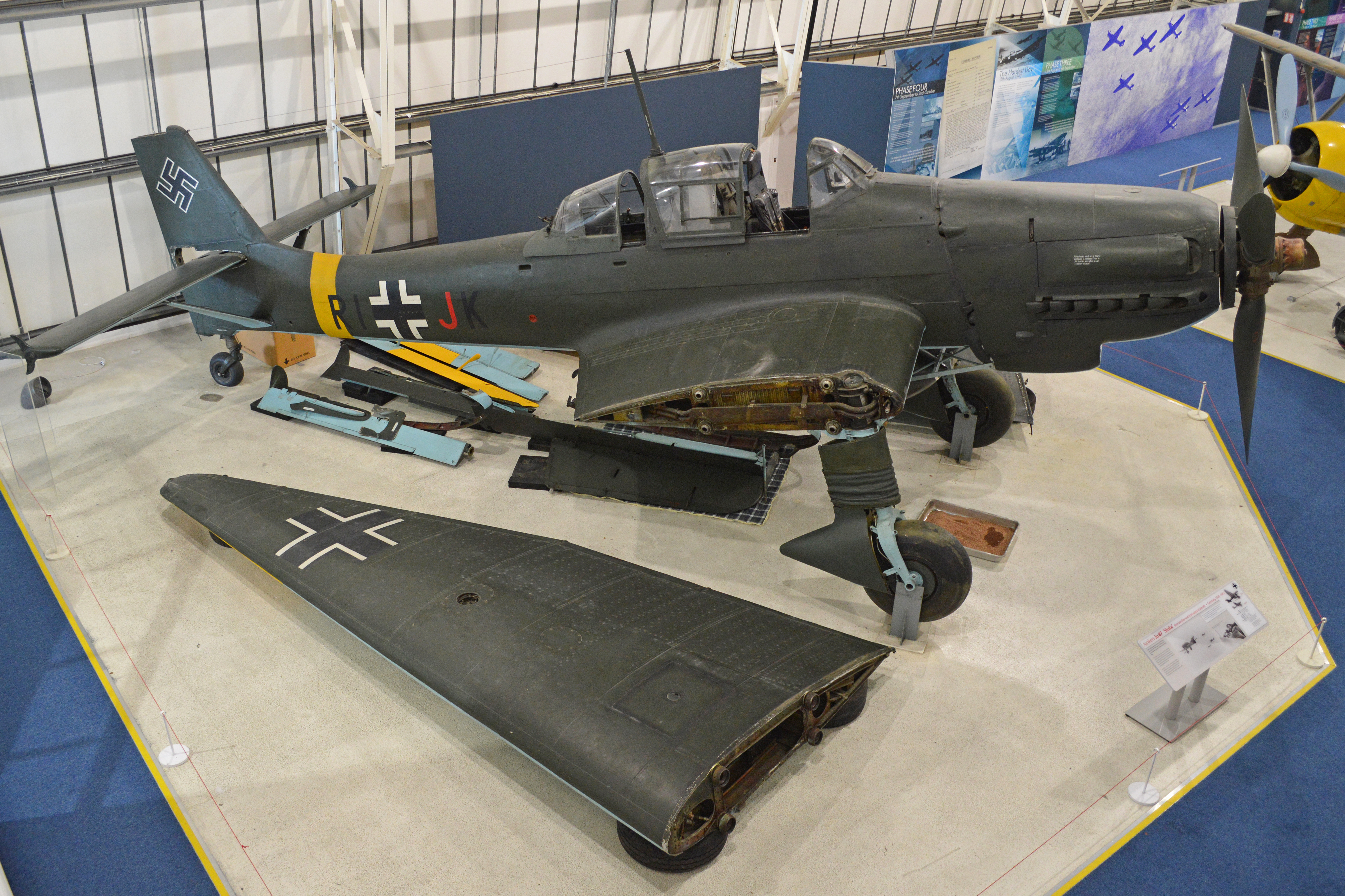 The RAF Museum has chosen to celebrate the 100th Anniversary of the service by dismantling and closing the museum dedicated to its finest hour, the Battle of Britain Museum. Ever cloud has a silver lining, however, and during May 2016 the aircraft were in a part dismantled state, allowing for some interesting photos. Built as a Ju87D-5 (WkNr2883) and later converted to a G-2 and given the new WkNr494083. Captured in Germany in May 1945, it was brought to the UK for museum use. It immediately went in to store and only made a few brief static appearances. It was at RAF Henlow in 1967 for the filming of the ‘Battle of Britain’ film and permission was given to restore the aircraft to fly. Unfortunately (or maybe fortunately??) this didn’t happen due to the aircraft’s overall condition. It was certainly engine run and probably taxied, but never appeared in the film. After several more show appearances, it was repainted to original markings at RAF St Athan in 1975 and in 1978 it arrived at Hendon for permanent display in the Battle of Britain Hall, RAF Museum, Hendon, London, UK. 28th May 2016